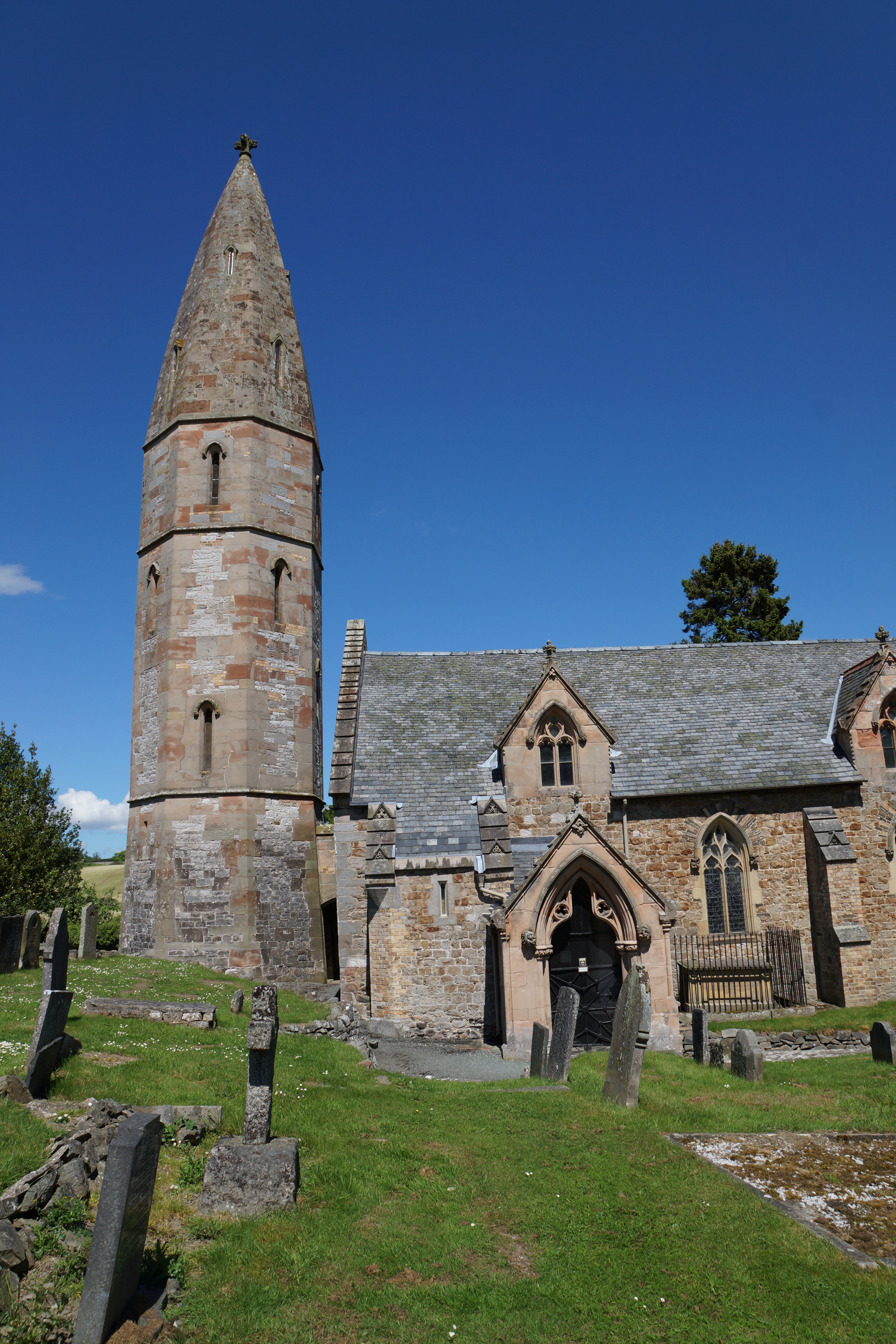 West tower, spire and south porch of the parish church of St Michael the Archangel, Llanyblodwel, Shropshire, England